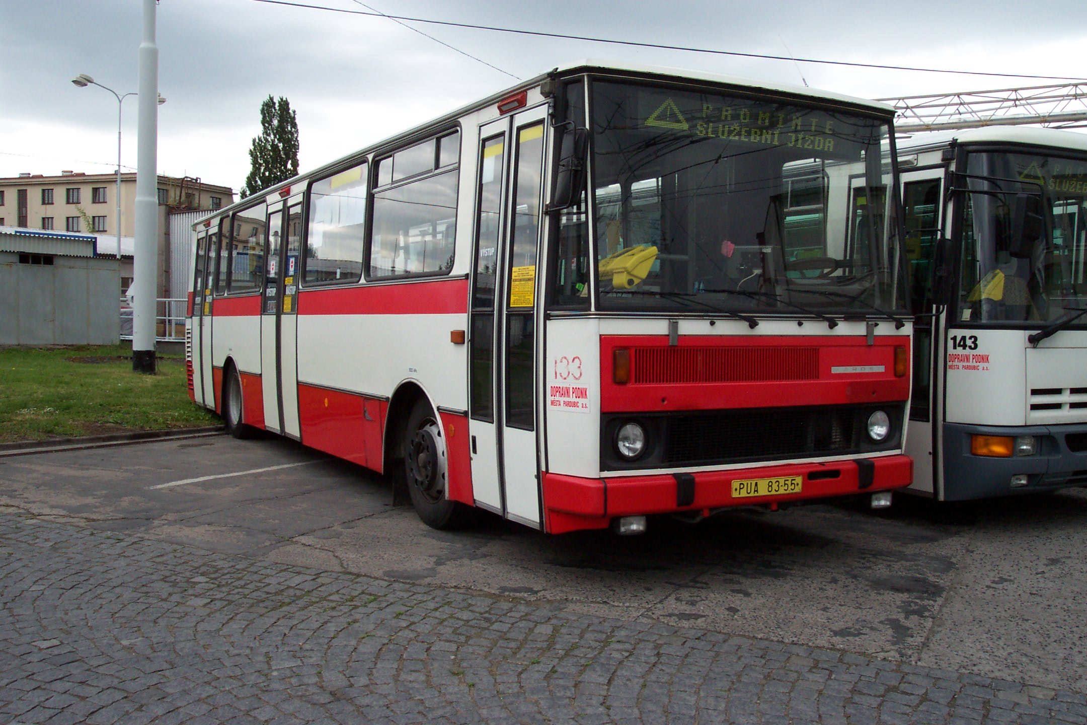 Bus type 1995 Karosa at the 55 years of trolleybus transport in Pardubice